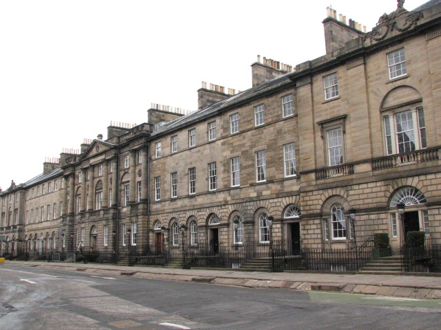 Charlotte Square. The north side of Charlotte Square was designed by Robert Adam to look like one large palace but is in fact several separate buildings.